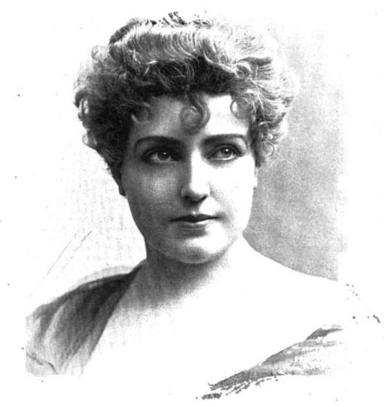 A photograph of Lillian Russell from 1897.